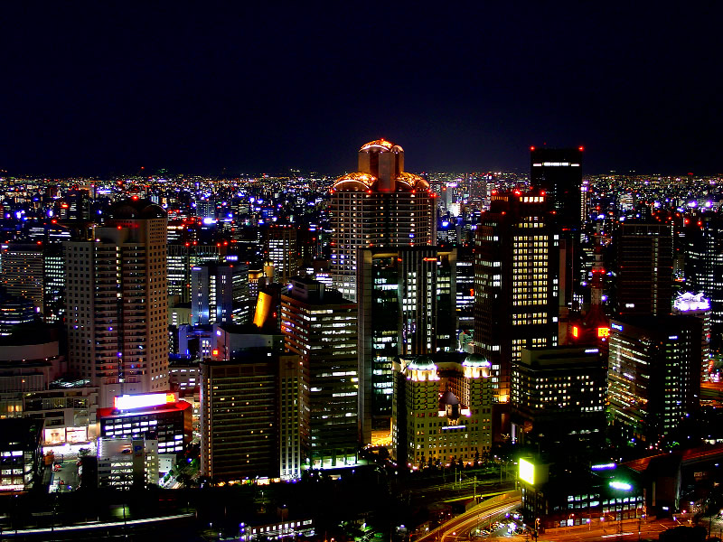 Night View of Osaka City.(Kita Ward, Osaka City, Osaka Prefecture, Japan)